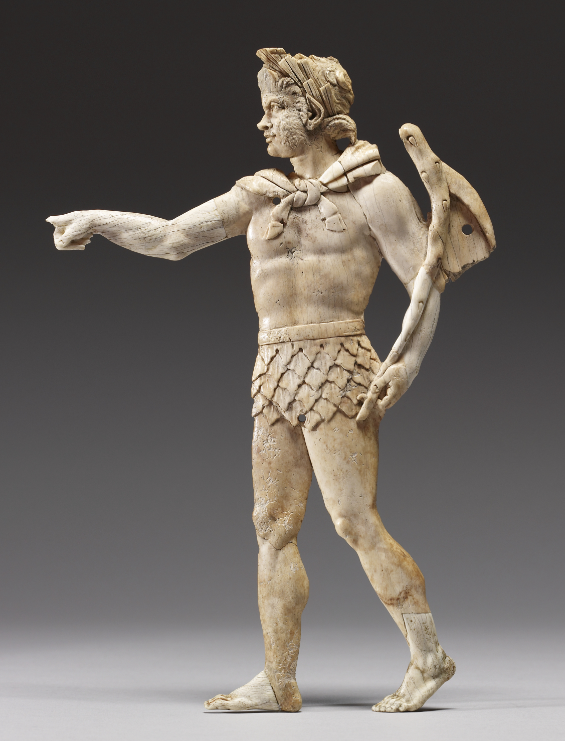 This relief formed part of a larger composition that likely decorated a piece of furniture. The satyr appears with a deer skin around his neck and carries a club, the typical attribute of Heracles.